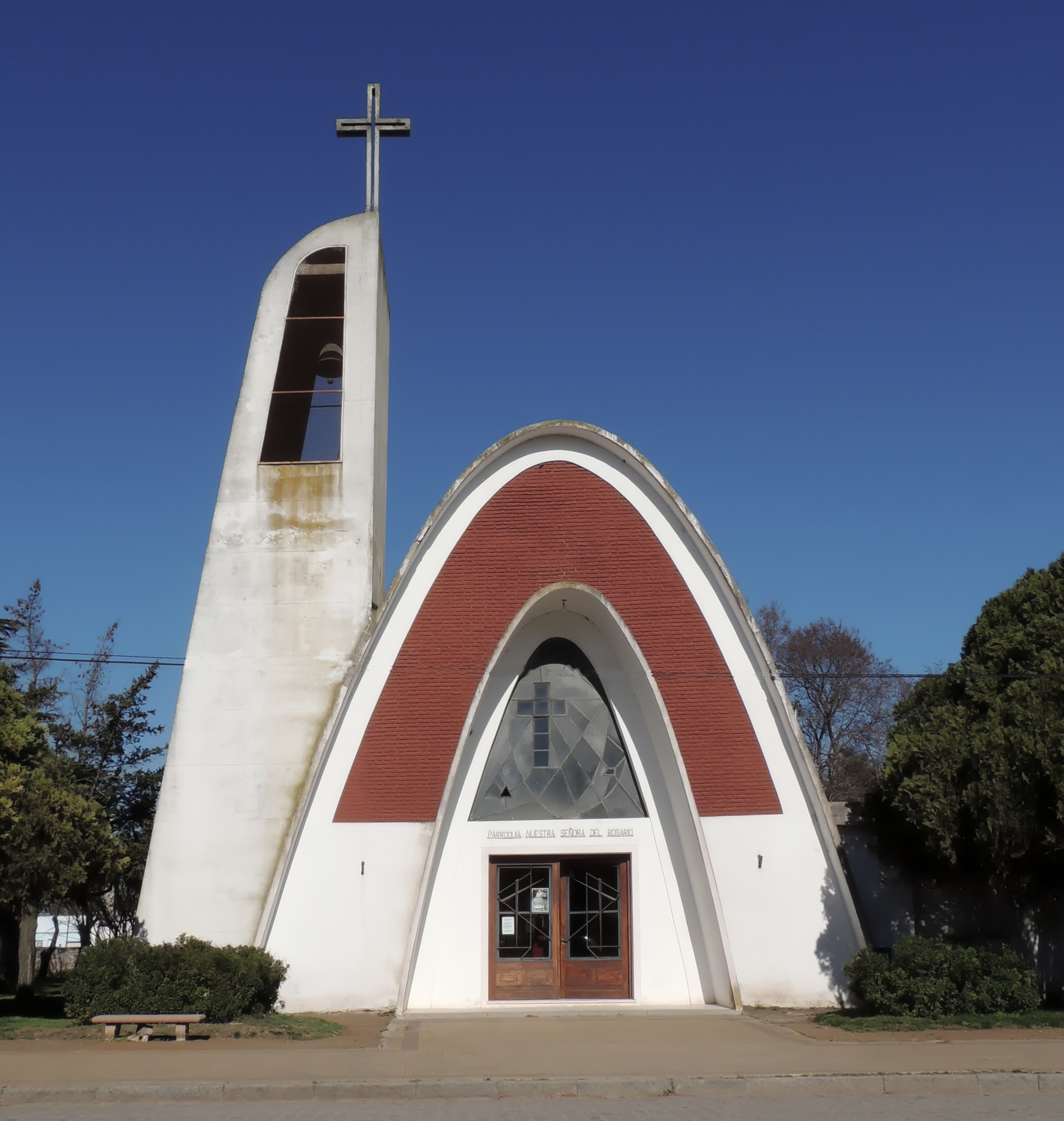 Front of Nuestra Señora del Rosario church, María Ignacia, Vela, Tandil, Argentina